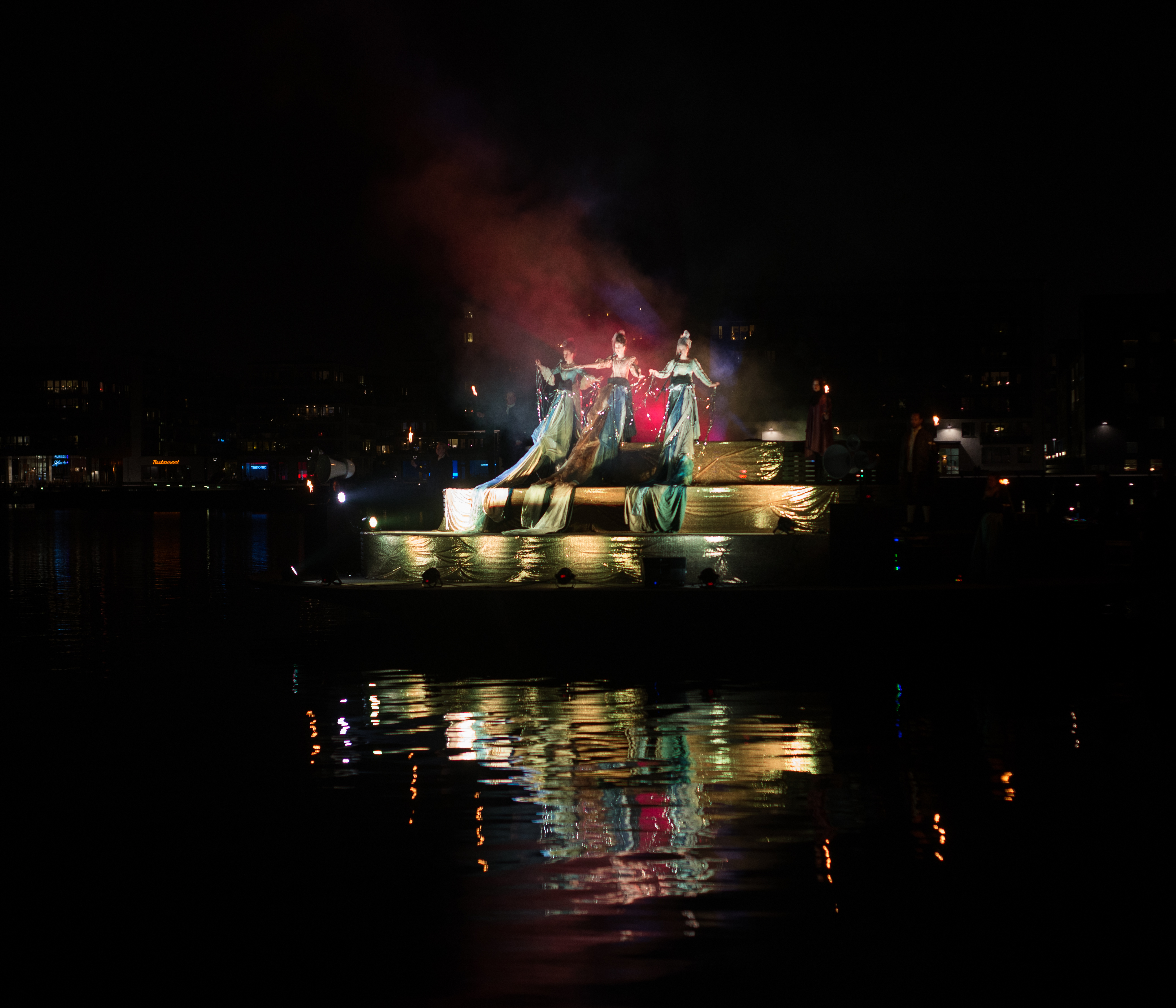 Opera students from Kulturama performing in Hammarby sjöstad during Stockholm Culture Night 2015. First scen from Richard Wagner's Das Rheingold.